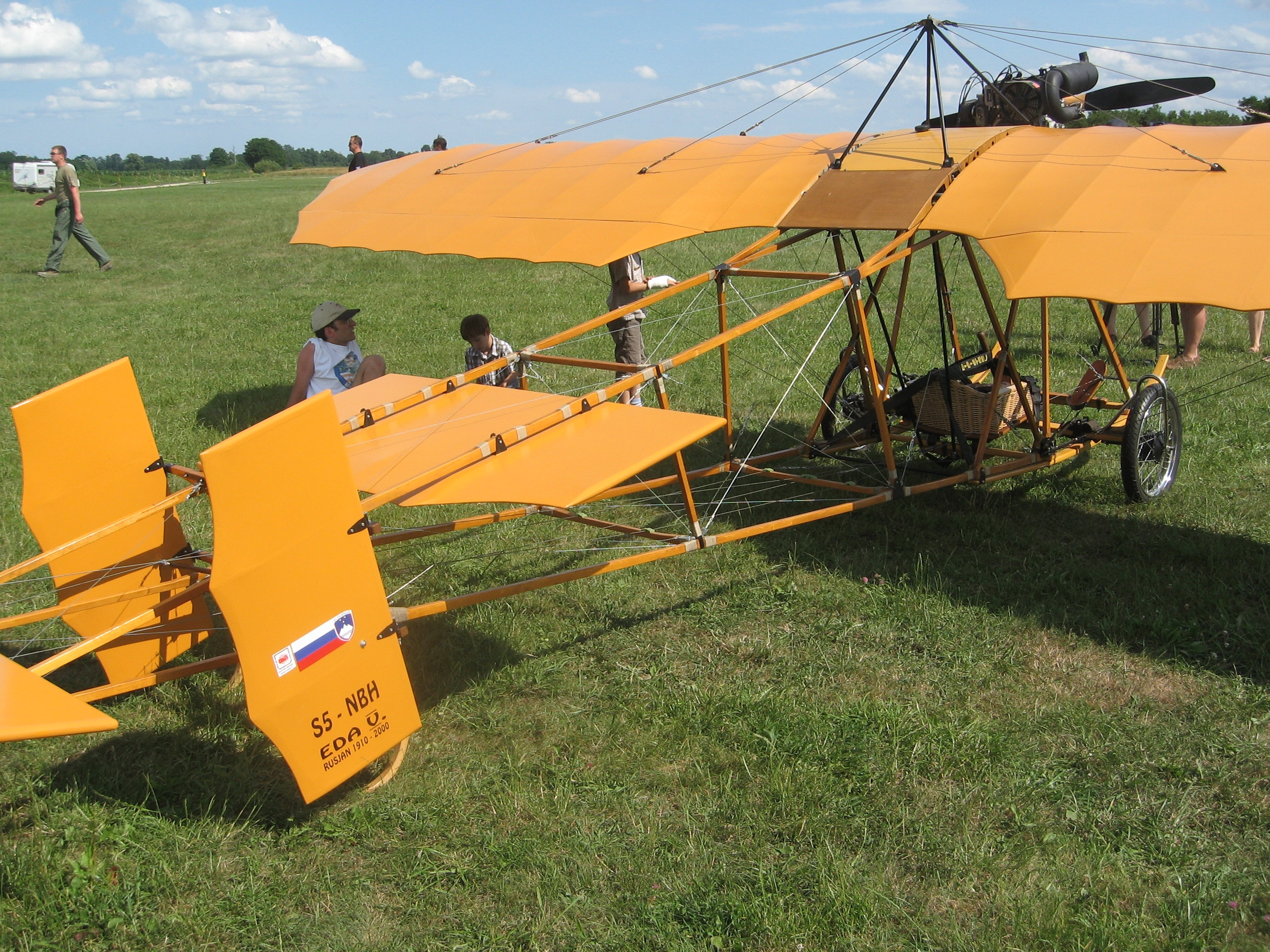 Replica of Rusjan's plane Eda V.